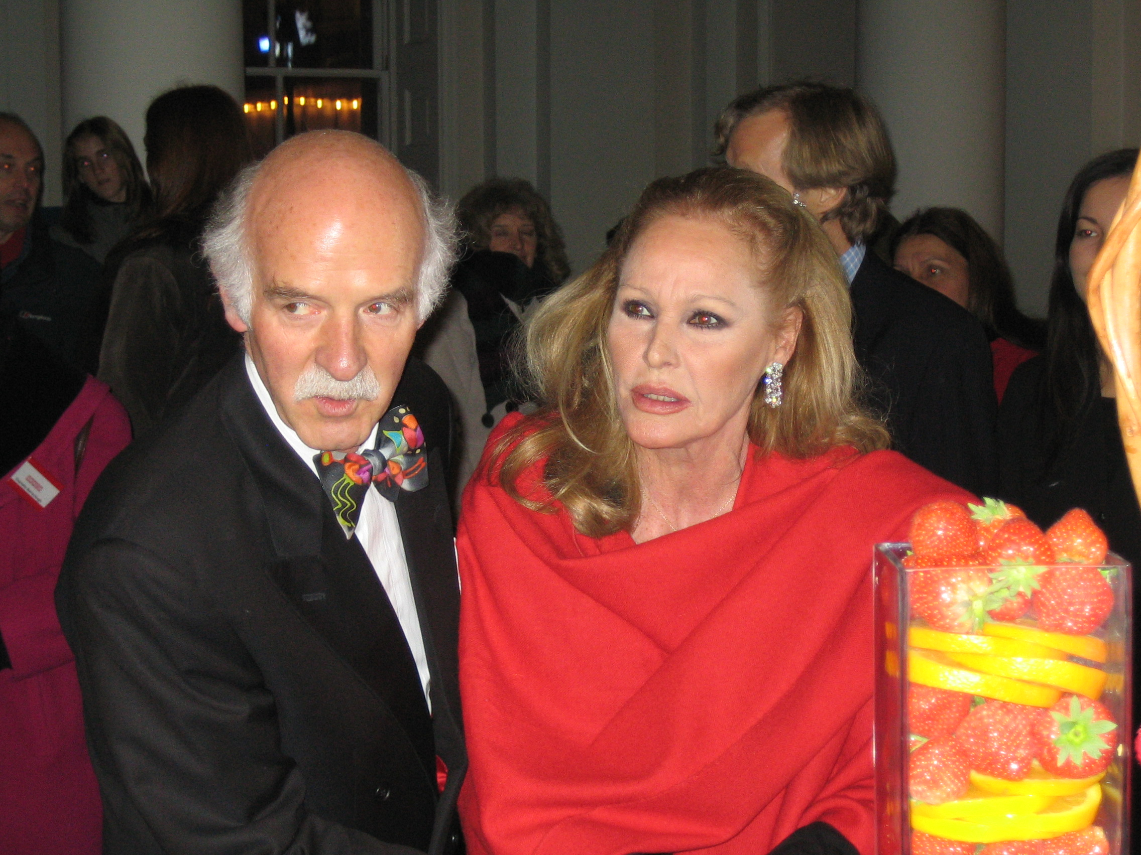 Ursula Andress and London based Swiss star chef Anton Mosimann at Somerset House in 2004